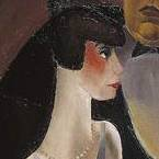 a crop from PAUL GUSTAVE VAN HECKE and his wife Honorine Deschrijver by Frits van de Bergh died 1939